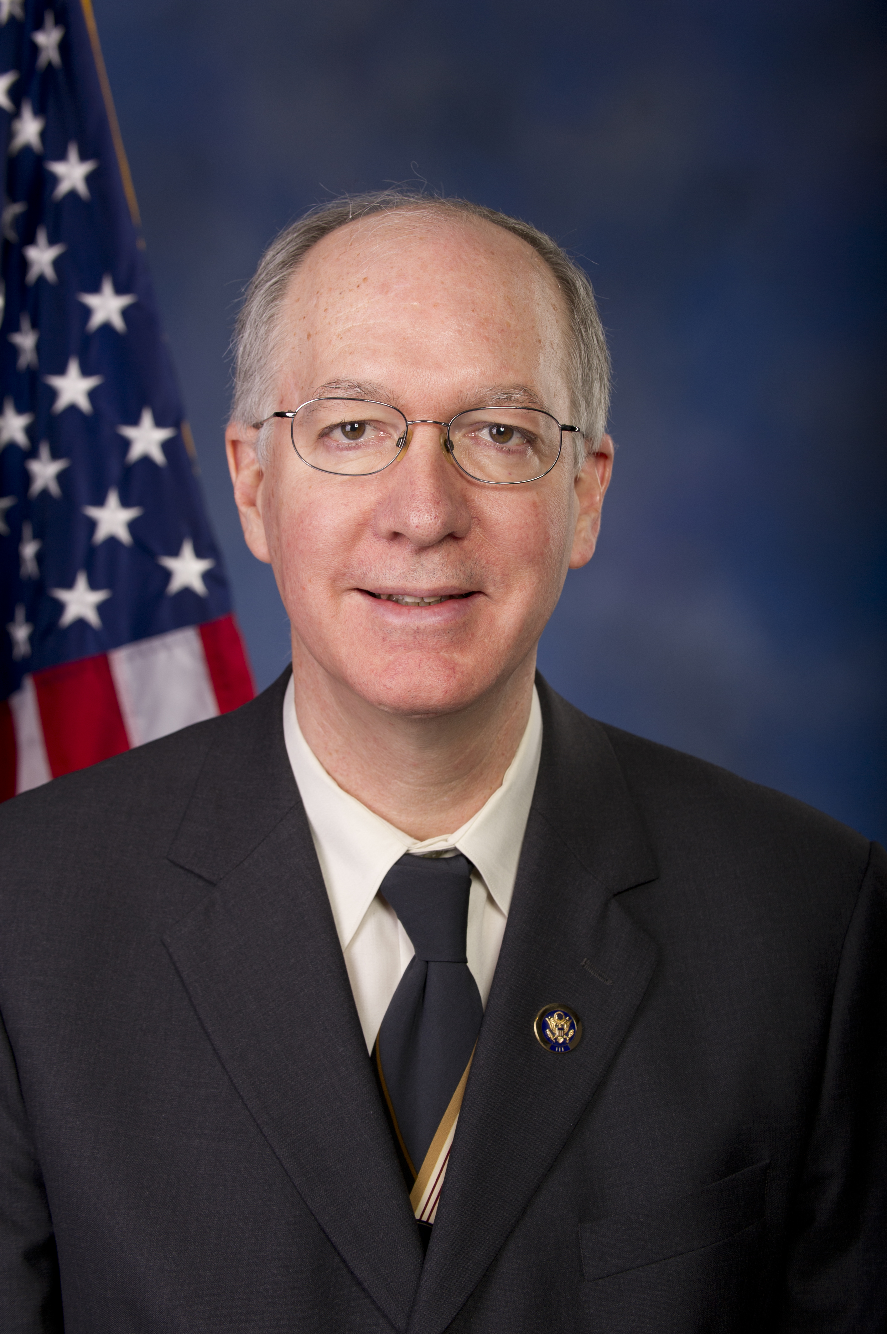 Portrait of Congressman Bill Foster